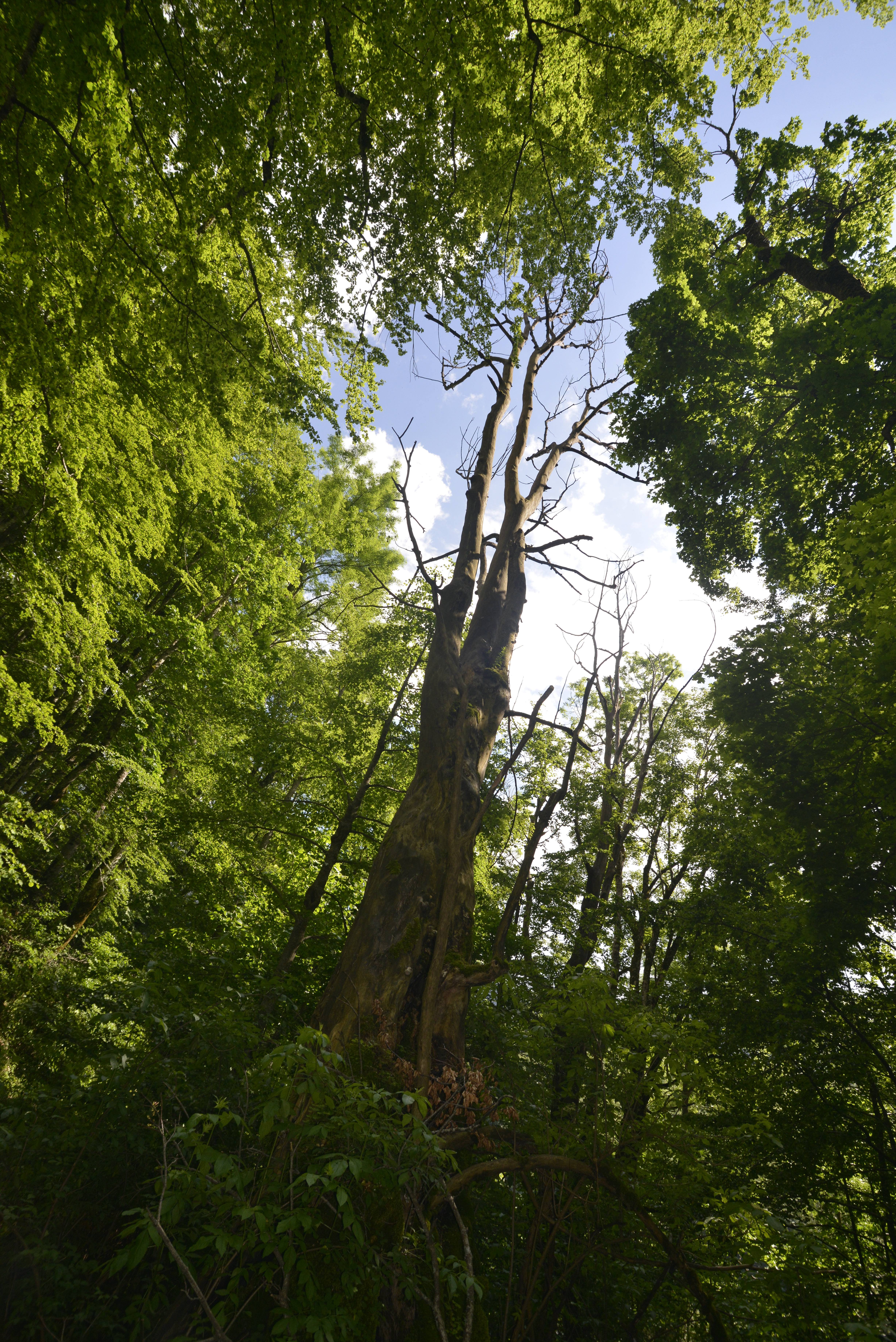 Beauty of National Park Biogradska Gora, Montenegro